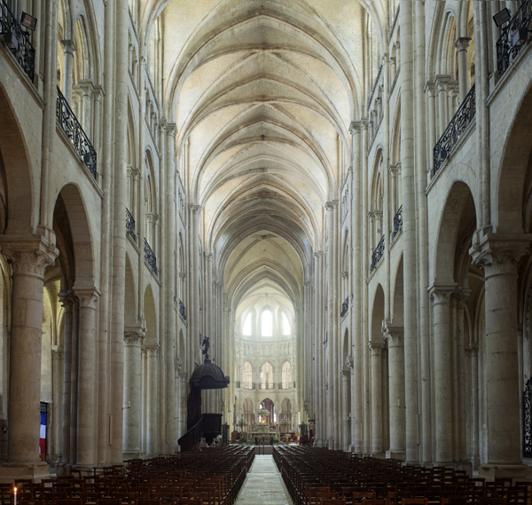 Cathedral; Europe